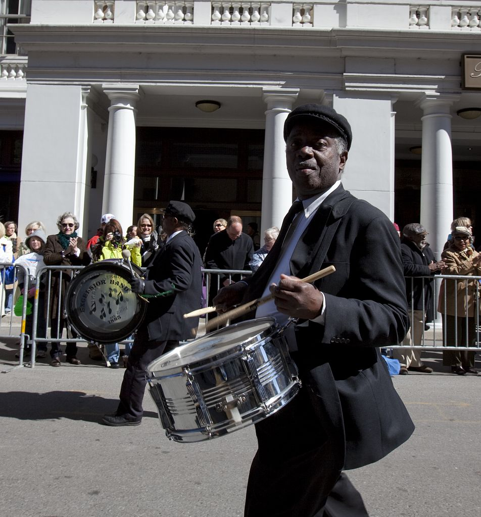 Mardi Gras, Mobile, Alabama. Parade snare drummer and bass drummer.